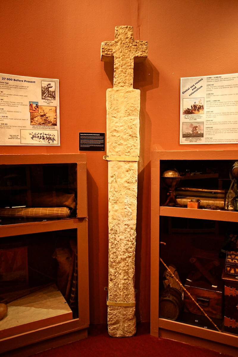 National Cultural History Museum, Boom Street, Pretoria This media shows a South African Protected Site with SAHRA file reference 9/2/258/0061.